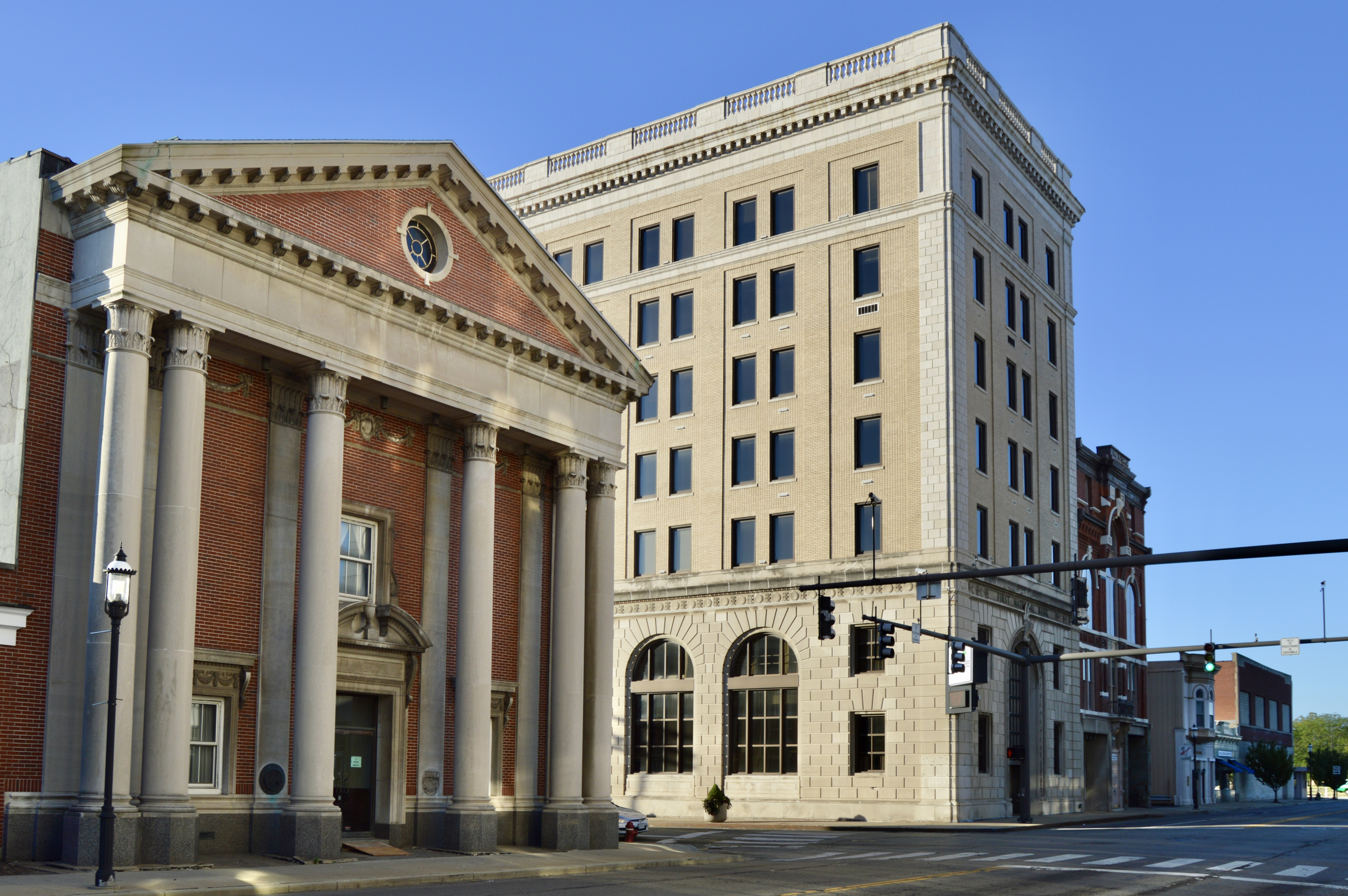 Buildings on the western side of the junction of Main Street and Central Avenue in Middletown, Ohio, United States. This intersection is the center of the Main Street Commercial Historic District, a historic district that is listed on the National Register of Historic Places.